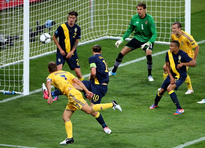 Andriy Shevchenko's goal at the Euro 2012 match against Sweden